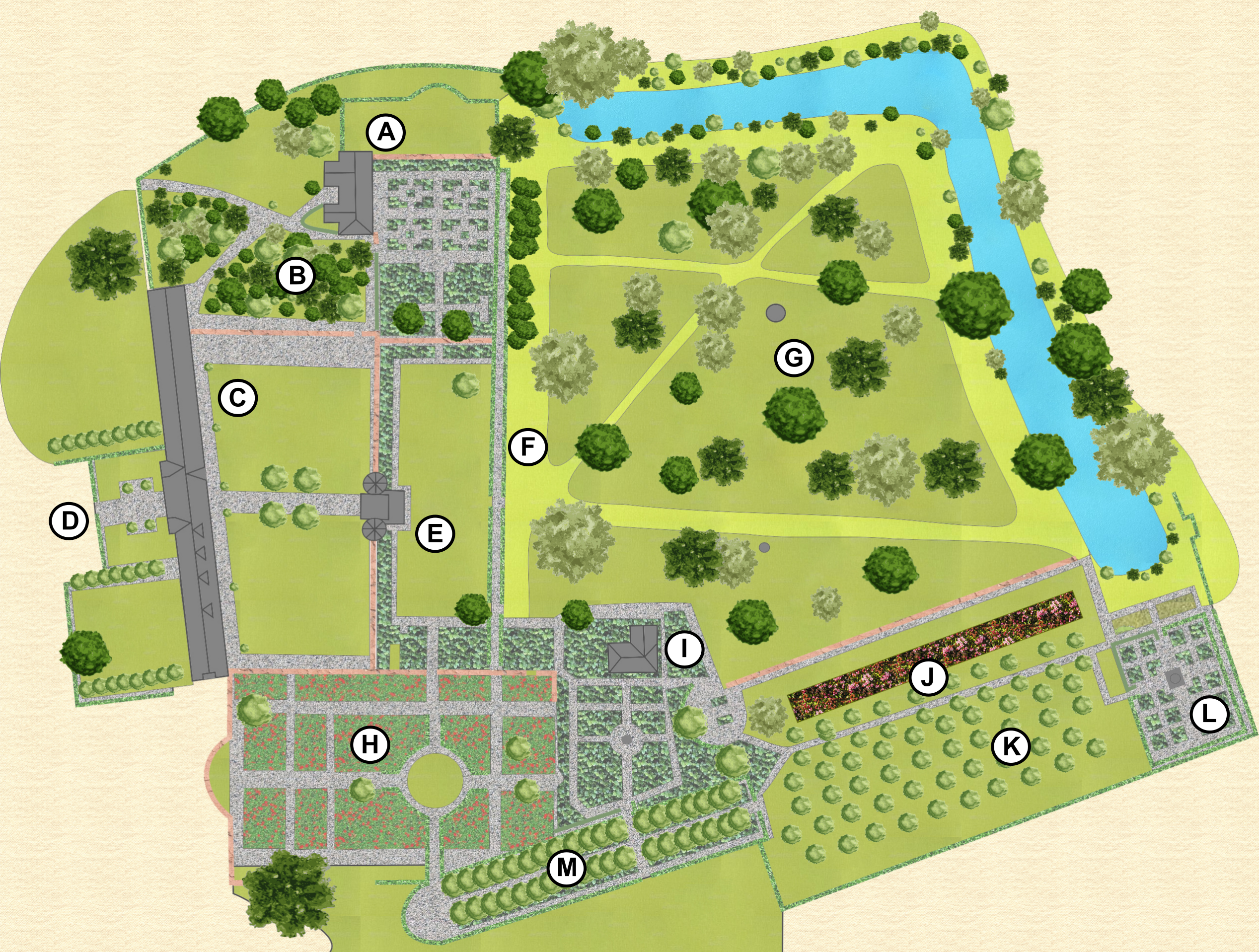 Sissinghurst Castle Gardens - Labelled map